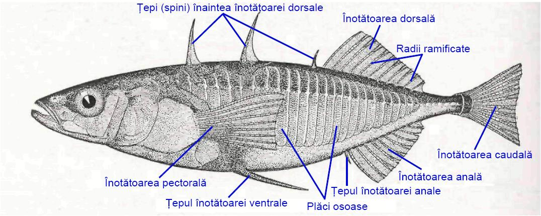 Gasterosteus aculeatus